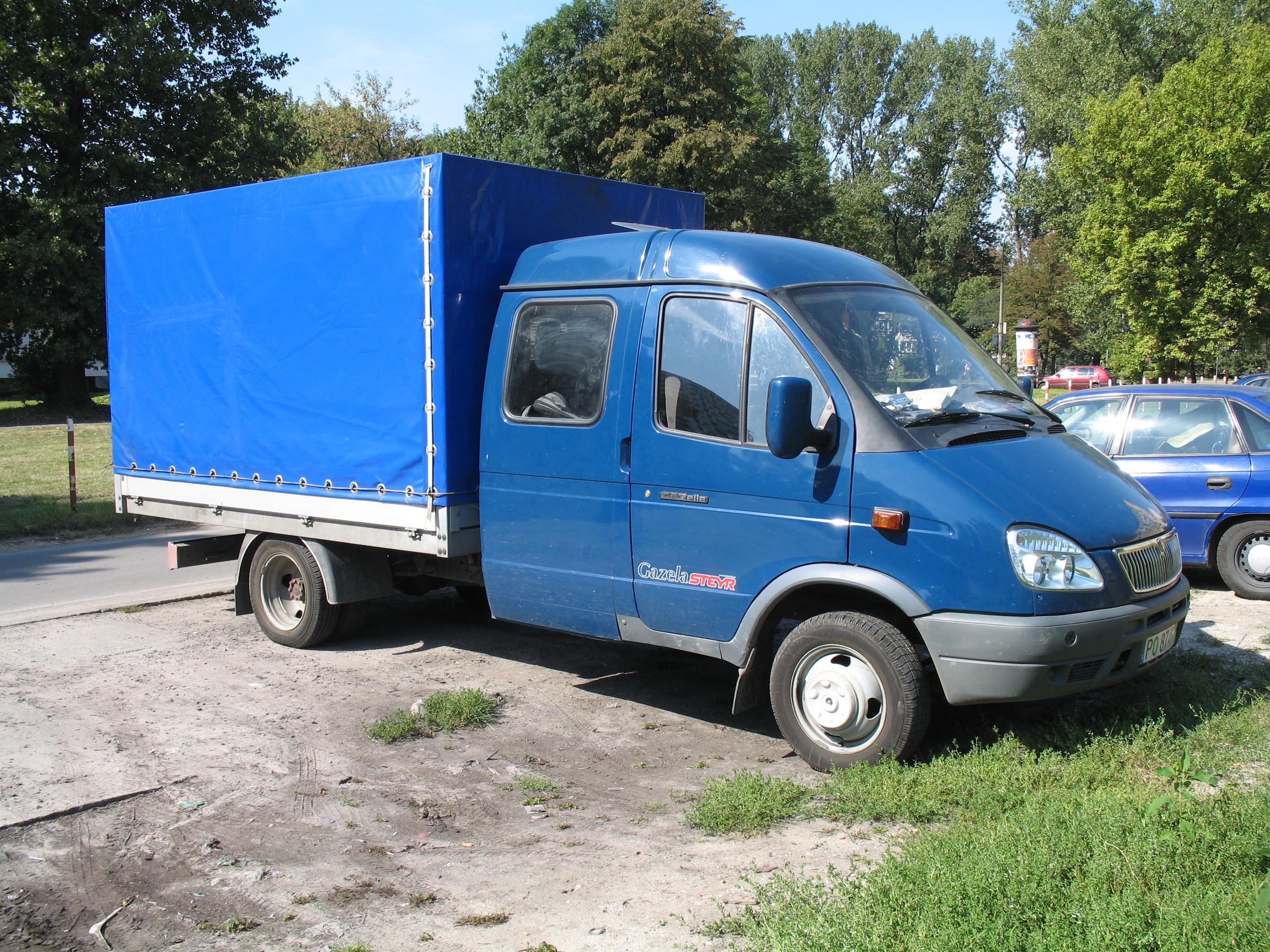 GAZelle in Kraków, Poland.